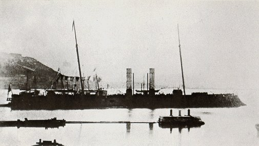 Affondatore, amored ram of italian navy, shortly after the batlle of Vis